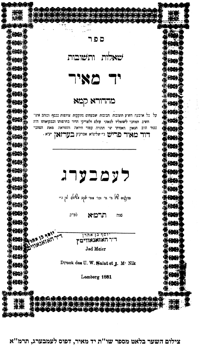 Front Page of Yad Meir Other information